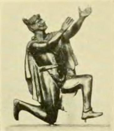 Late 19th century photograph of the Roman bronze figure often referred to as the "Praying Germanic" found in the National Library in Paris, France. Originally published 1890; this image taken from a 1910 work entitled "The arts and crafts of our Teutonic forefathers" by G. B. Brown, where it is glossed as "Bronze figure of a German, Bibliothèque Nationale, Paris". The statuette measure 12 cm in height. It is also known as the "Supplicating German" or "supplicating barbarian". "the existence of other bronze barbarians in similar attitudes of prayer and subjection suggests that the composition was a popular one" (Melissa Barden Dowling, Clemency and cruelty in the Roman world, 2006, p. 151)